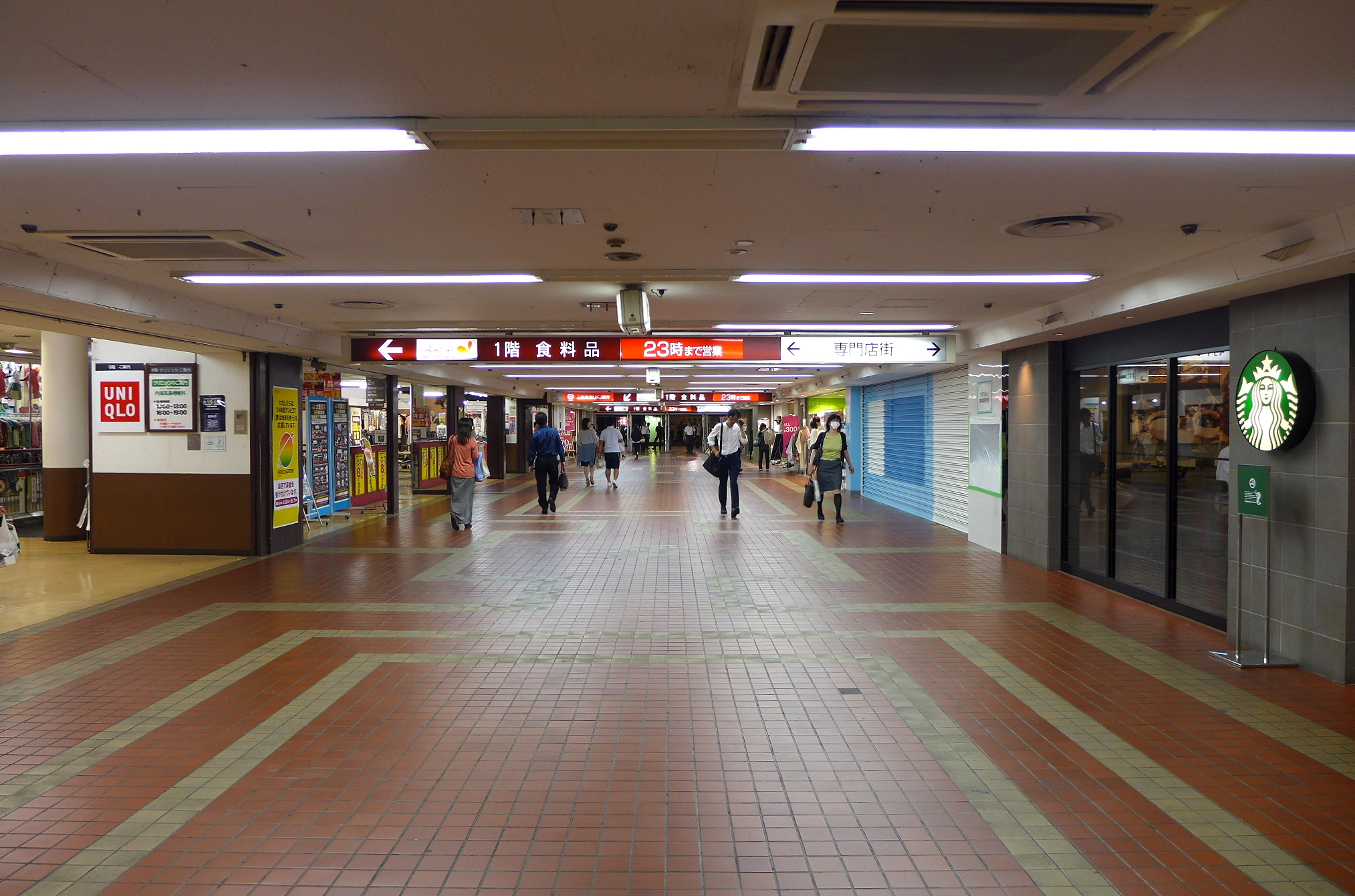 Daiei Kyobashi Access